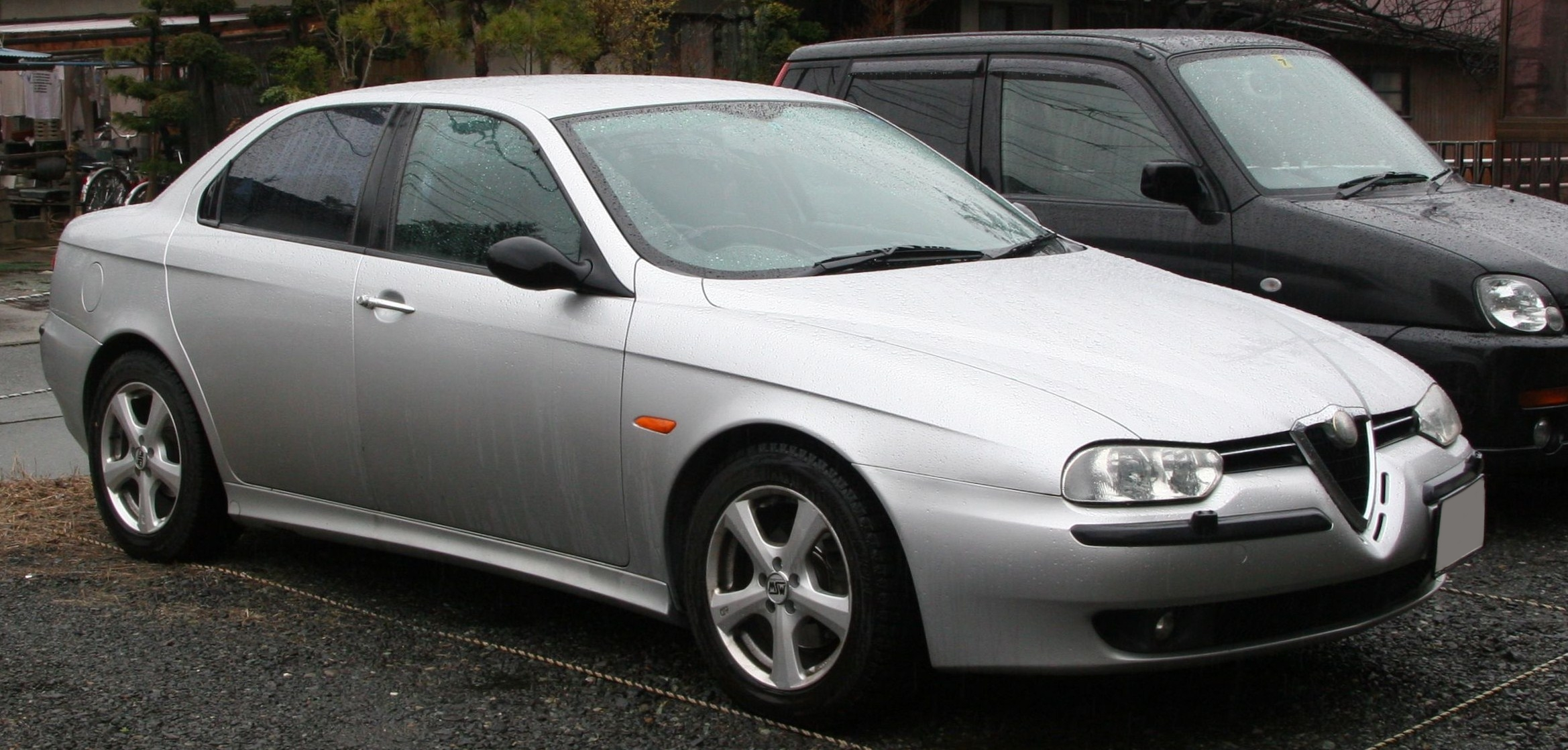 Alfa Romeo 156